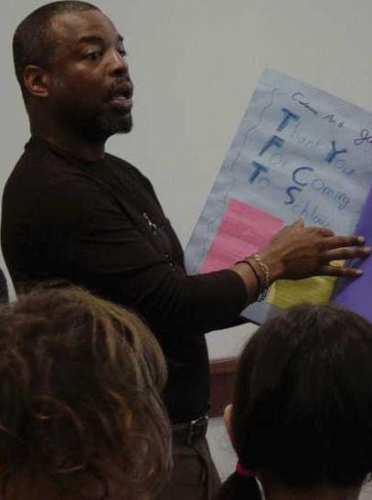 Levar Burton at the Schlow Centre Region Library on Monday, Jan. 29, 2007.